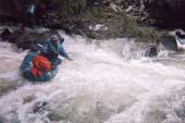 Negotiating a creek, backpack strapped to the bow. Alpacka Raft has authorized this image for open use.